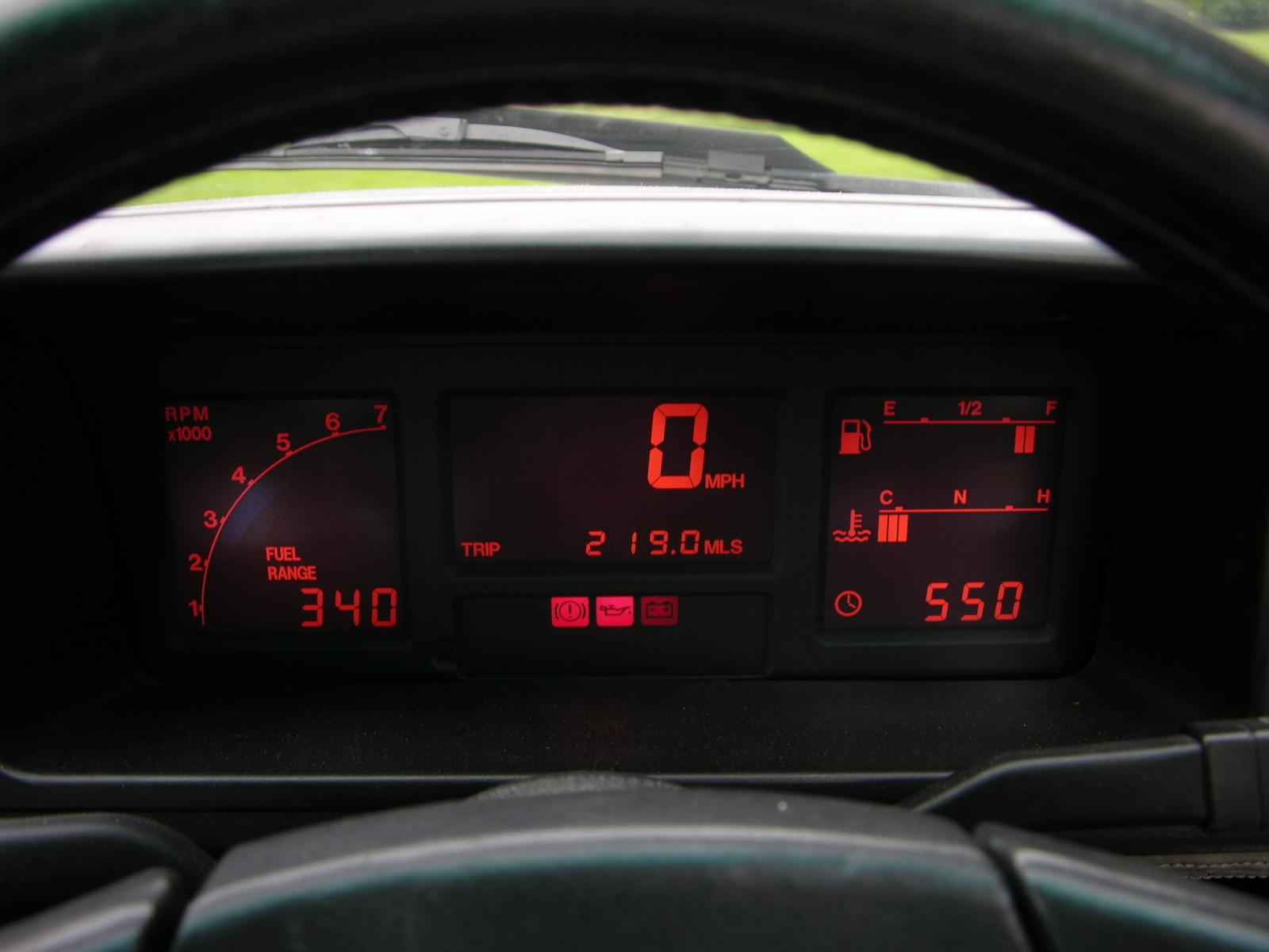 This car is for sale. Please contact us at or visit for more information.